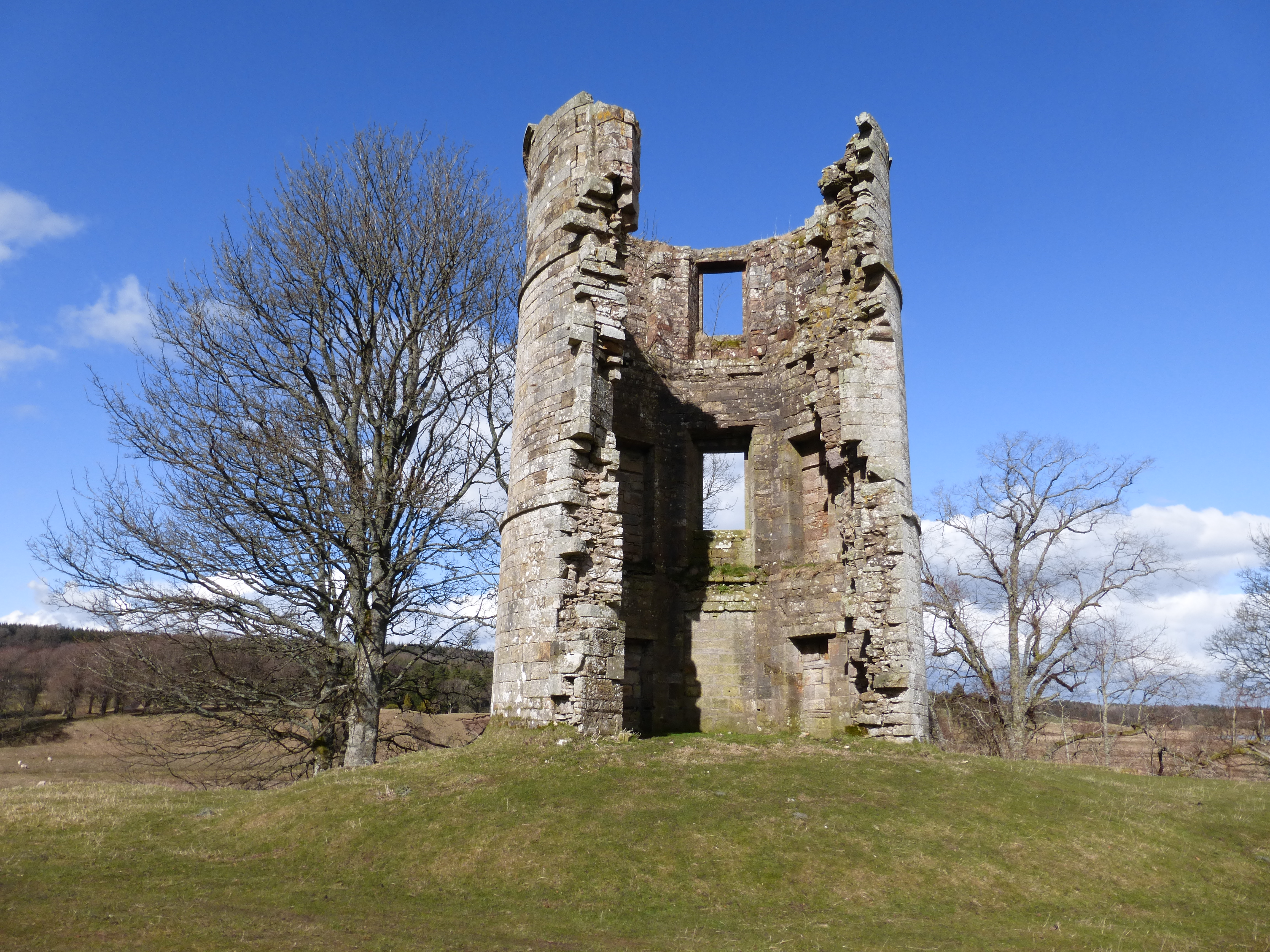 17thC tower, site of Douglas Castle